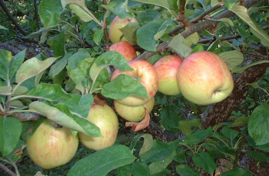 Gravenstein apple, a yellow strain (somtimes called "green") British Columbia, Canada